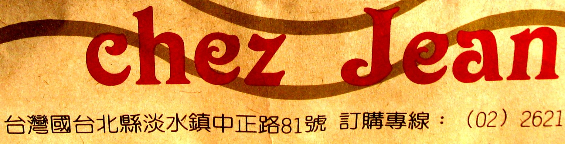 A shopping bag with a "Taiwan name-rectification."